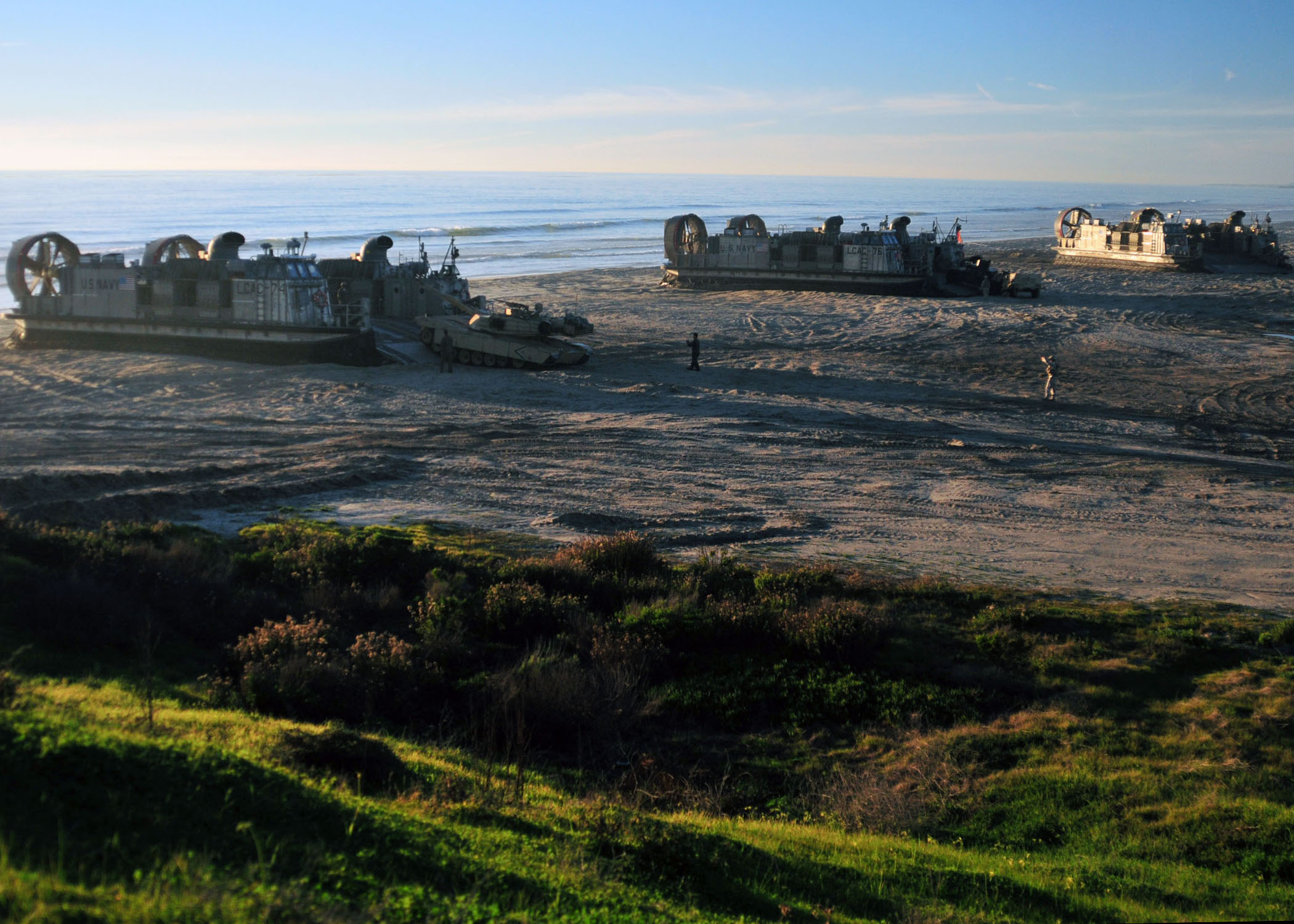 CAMP PENDLETON, Calif. (Dec. 13, 2010) Equipment assigned to the 13th Marine Expeditionary Unit (13th MEU) depart several landing craft air cushion (LCAC), from Assault Craft Unit (ACU) 5, embarked aboard the amphibious assault ship USS Boxer (LHD 4). ACU-5 is transporting 13th MEU personnel and equipment from Boxer to participate in simulated operations ashore. The Boxer Amphibious Readiness Group and the 13th MEU are participating in a certification exercise in preparation for deployment in early 2011. (U.S. Navy photo by Mass Communication Specialist 3rd Class Trevor Welsh/Released)